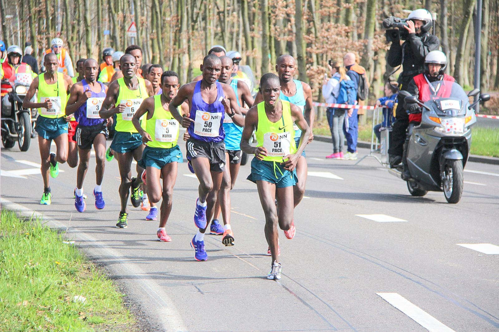 Leaders of the Marathon Rotterdam 2015